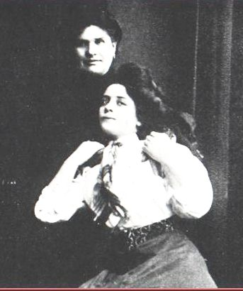 Yiddish theater actress Clara Young and her mother